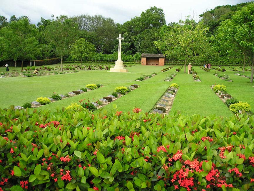 Chittagong War Cemetary, Chittagong, Bangladesh